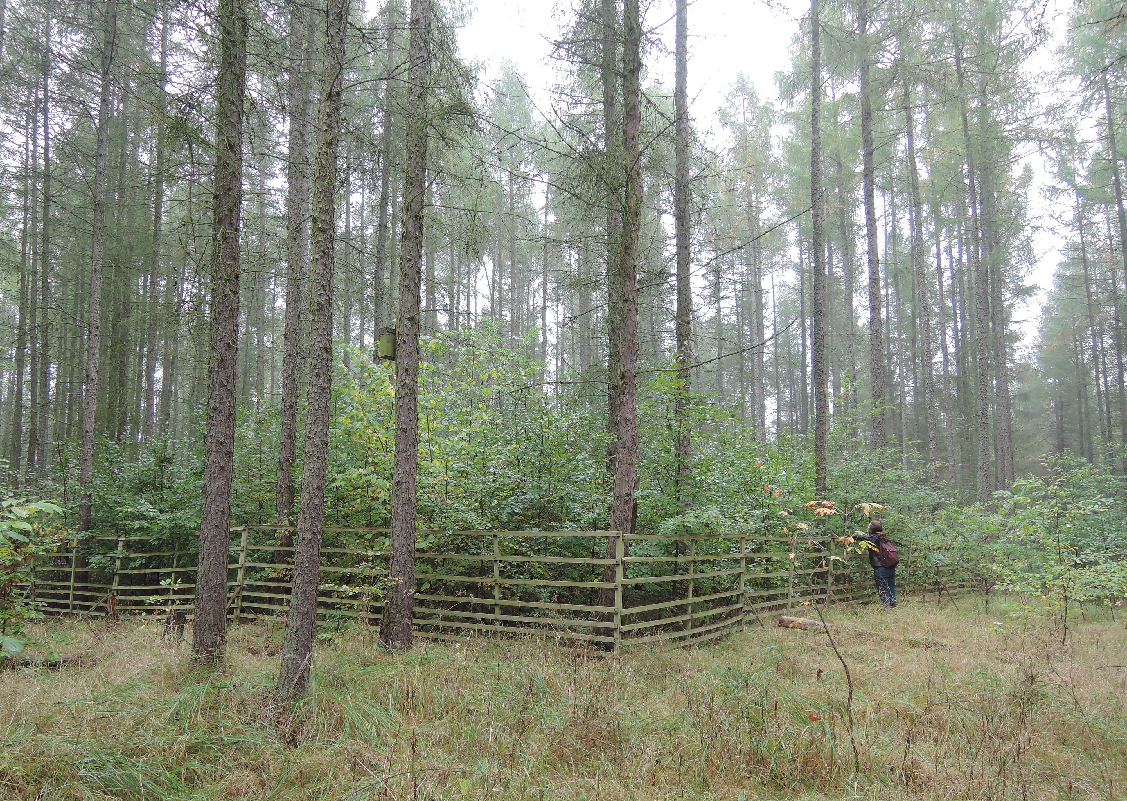 WikiWoods planting from 7 November 2009 (6 years 11 months old) at NSG Biesenthaler Becken, Brandenburg, Germany